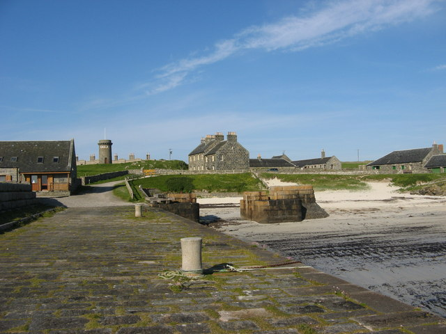 Hynish pier Another beautiful morning on sunny Tiree.